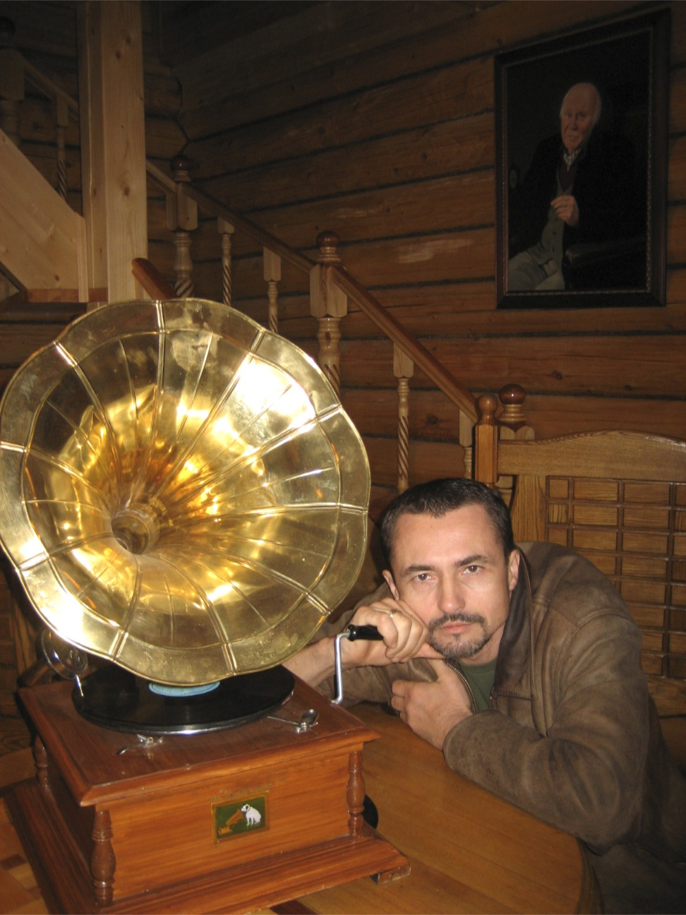 Russian surrealist artist Victor Bregeda, photo taken by Alexander Mirgorodski (ISasha)